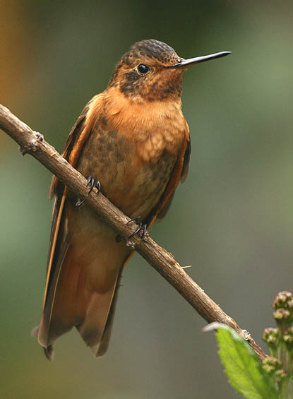 Shining Sunbeam (Aglaeactis cupripennis). "A large and beautiful hummer. Yanacocha Reserve, NW Ecuador 3/8/2007."